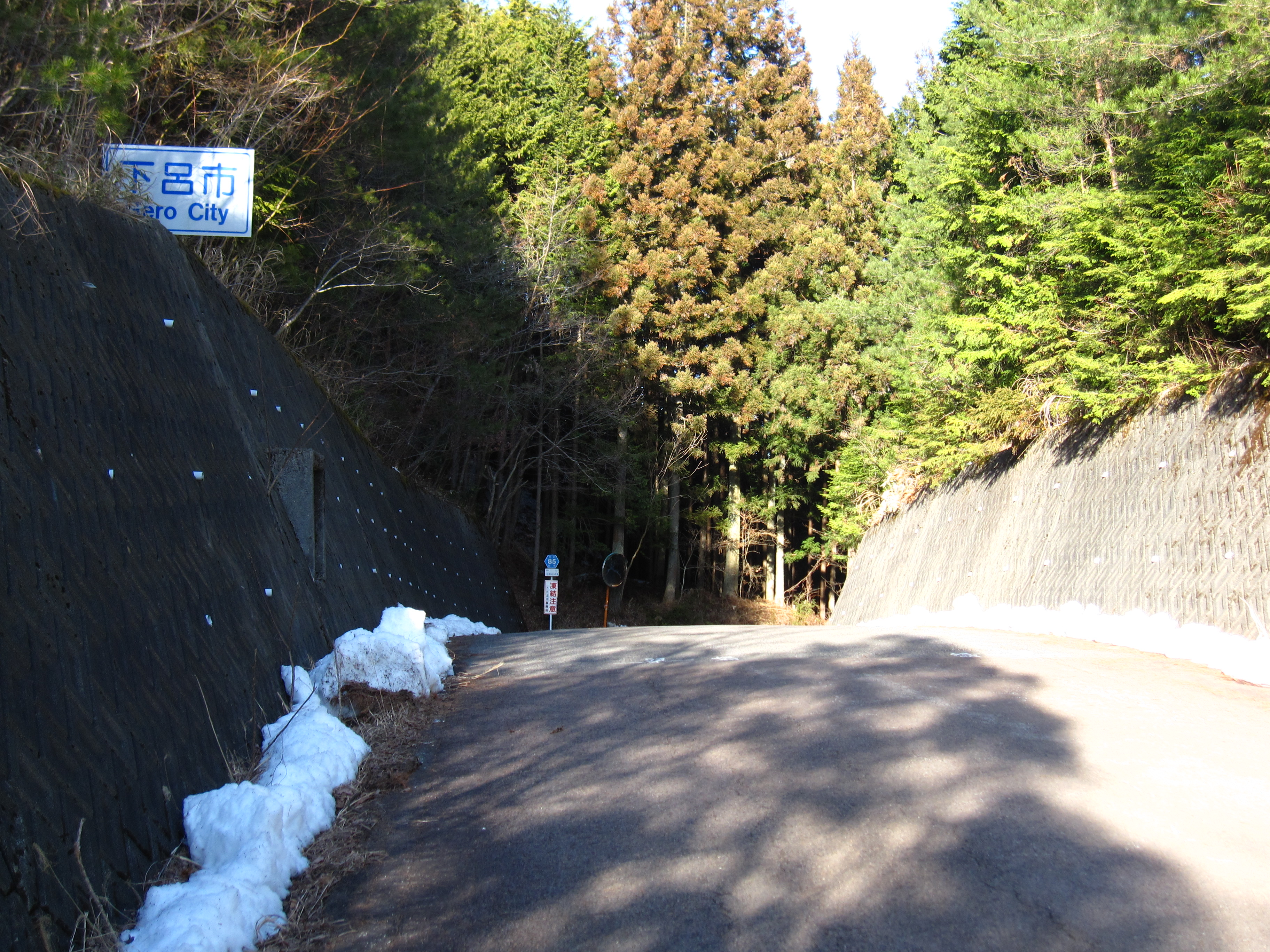 The Gifu Prefectural Road Route 85 on the Hosei Pass, the border between Gero and Seki Cities